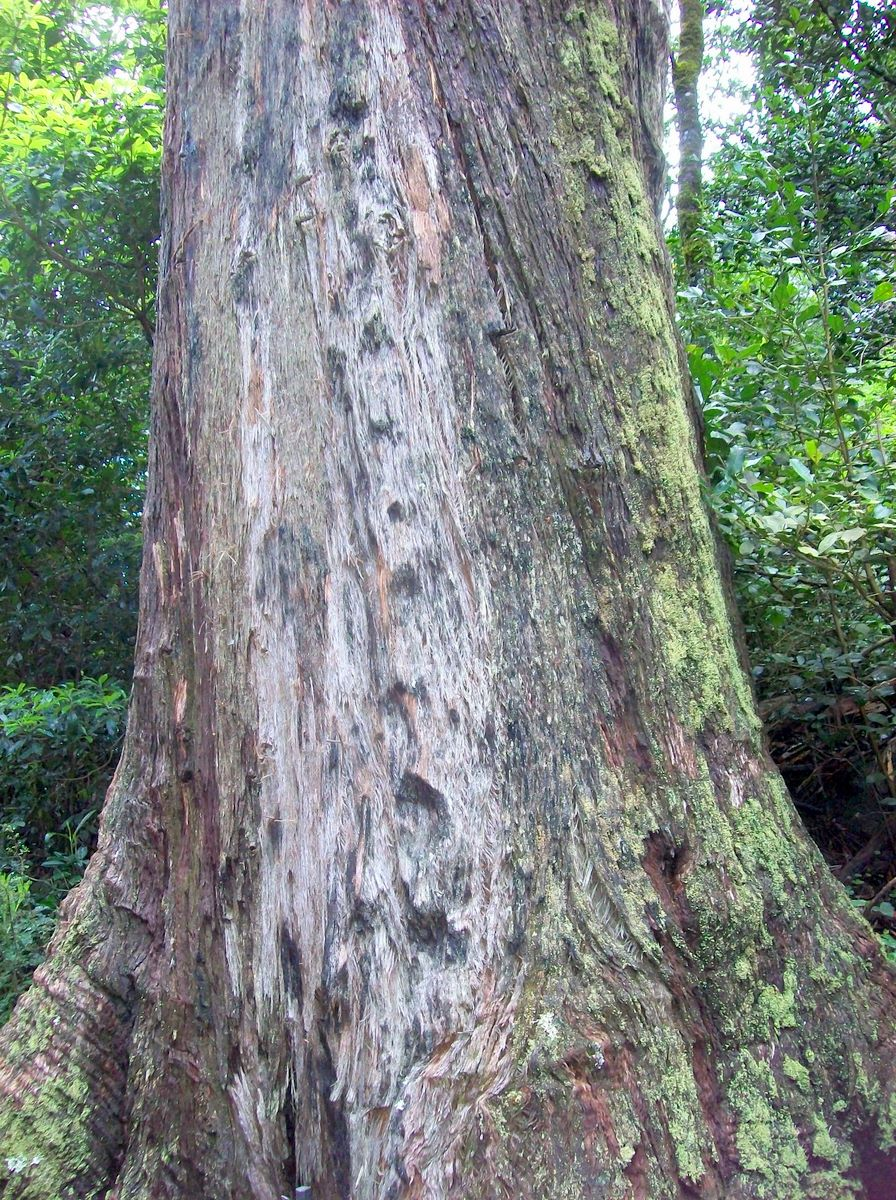 Eucalyptus blaxlandii, mature tree at Mount Tomah. Blue Mountains, New South Wales. (sign-posted tree)